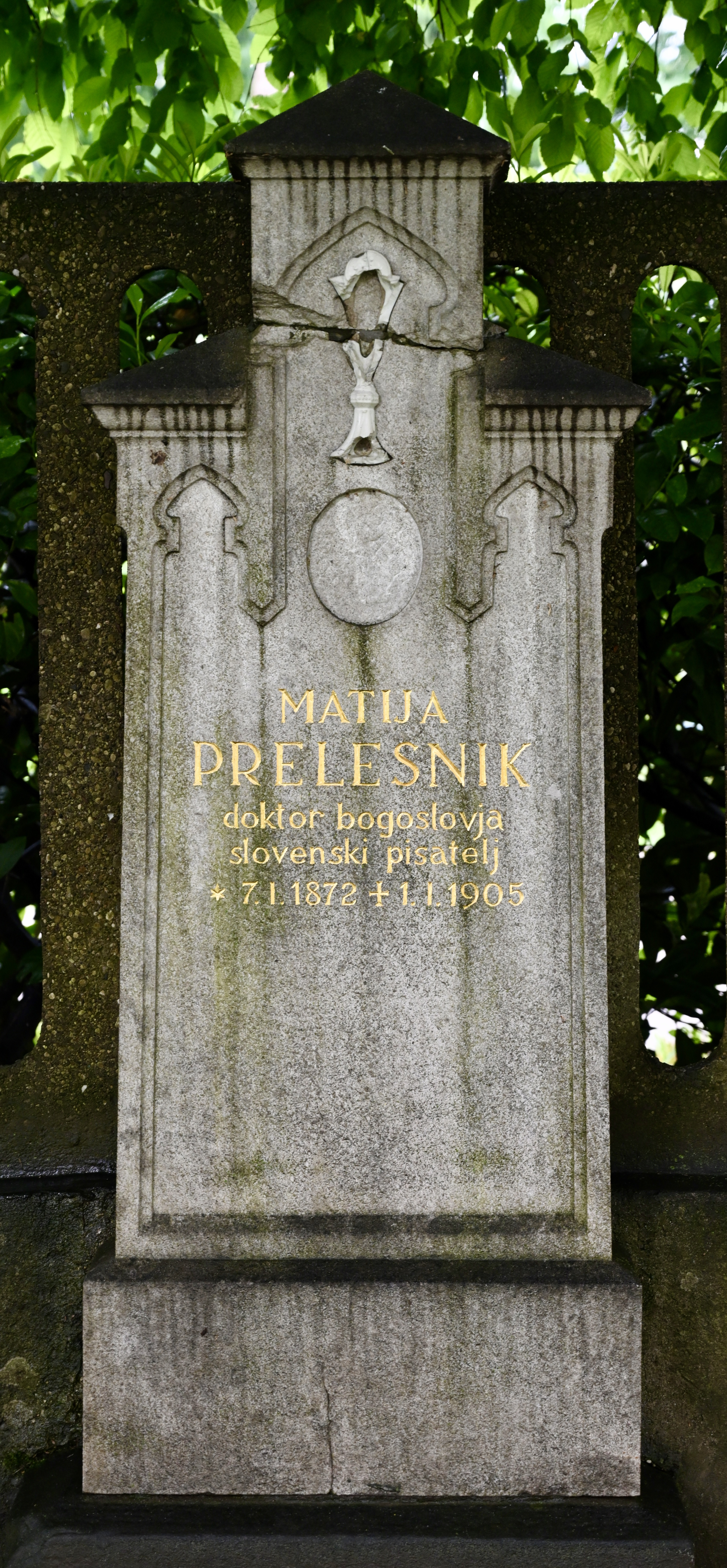 Tombstone of Matije Prelesnik, a Slovenian priest and author, at Navje in Ljubljana